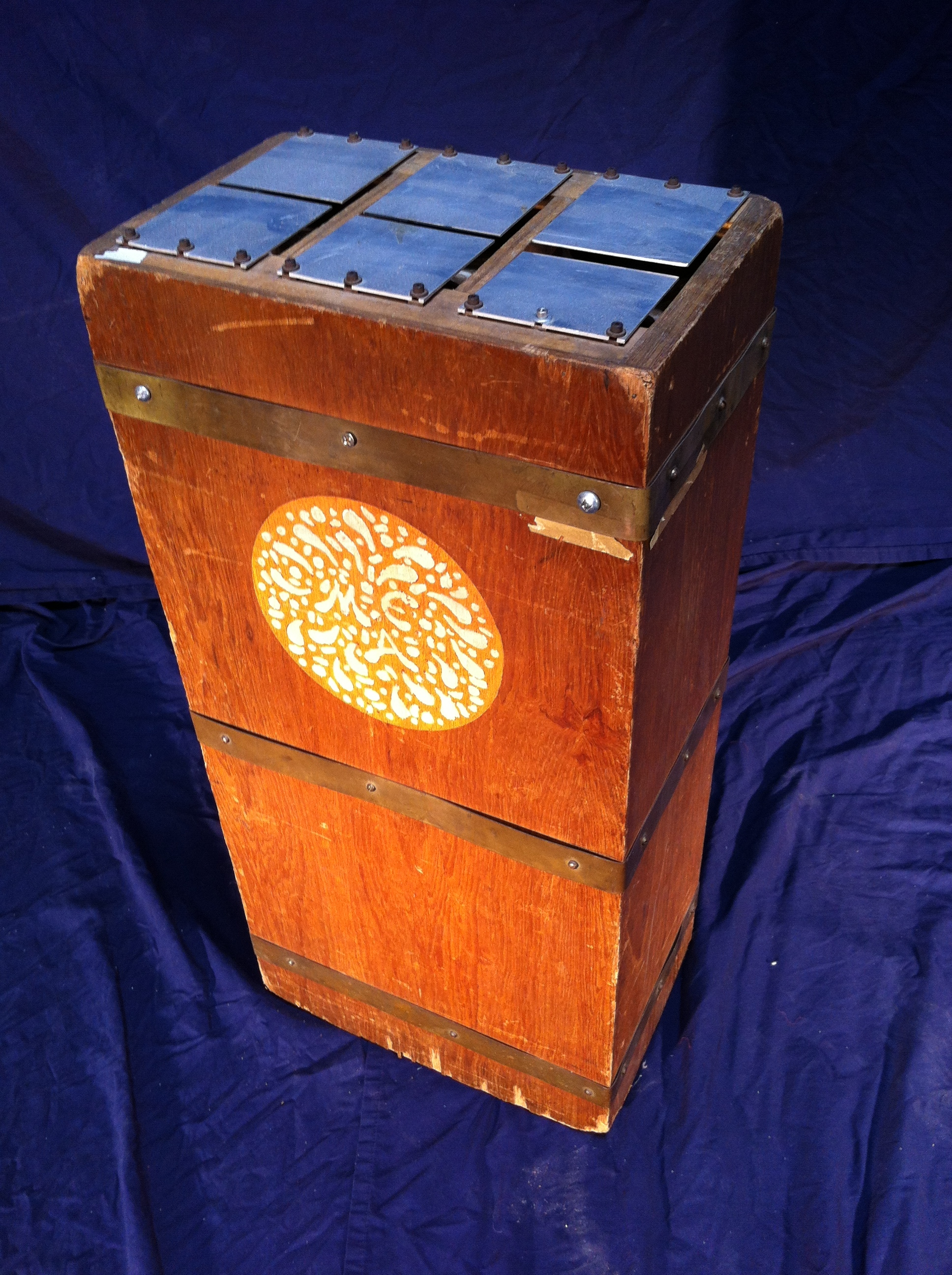 Lujon (from Emil Richards Collection). Pitches are Ab2, Bb2, D3, F3, G3, and A3.